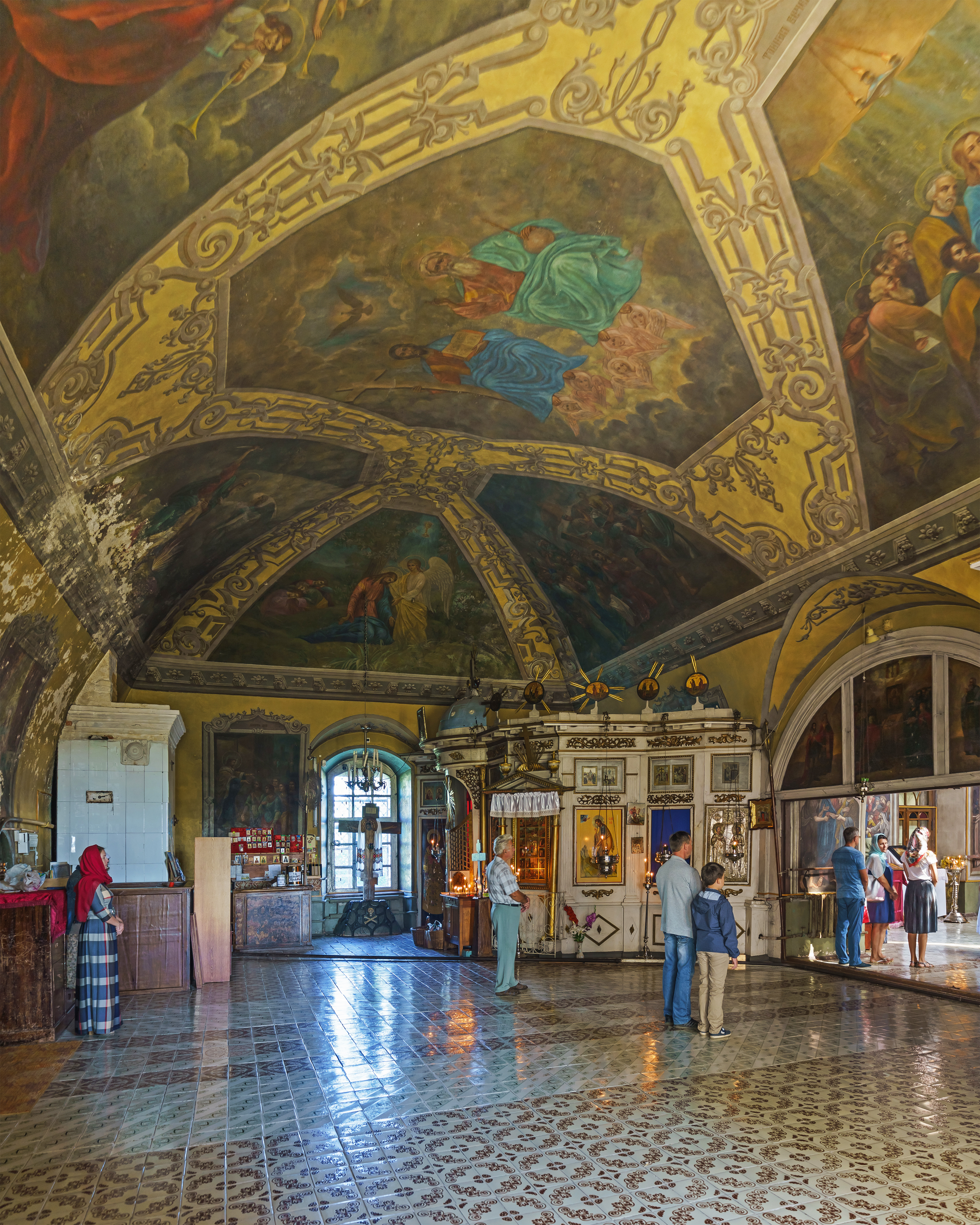 Interior of Church of the Theotokos of the Sign in Krasnoe, Ivanovo Oblast, Russia.